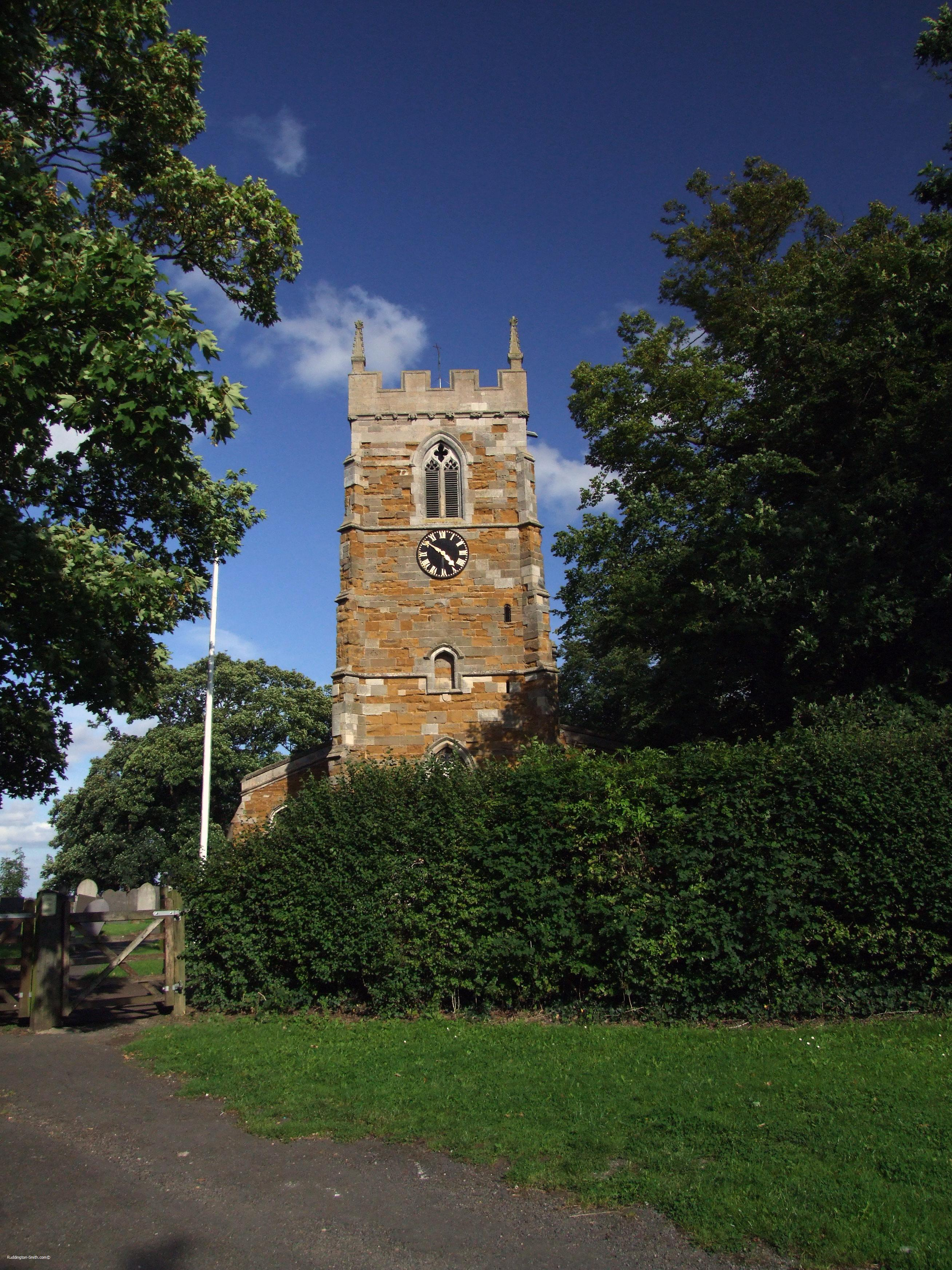 St Mary the Virgin, Harby. Leicestershire.